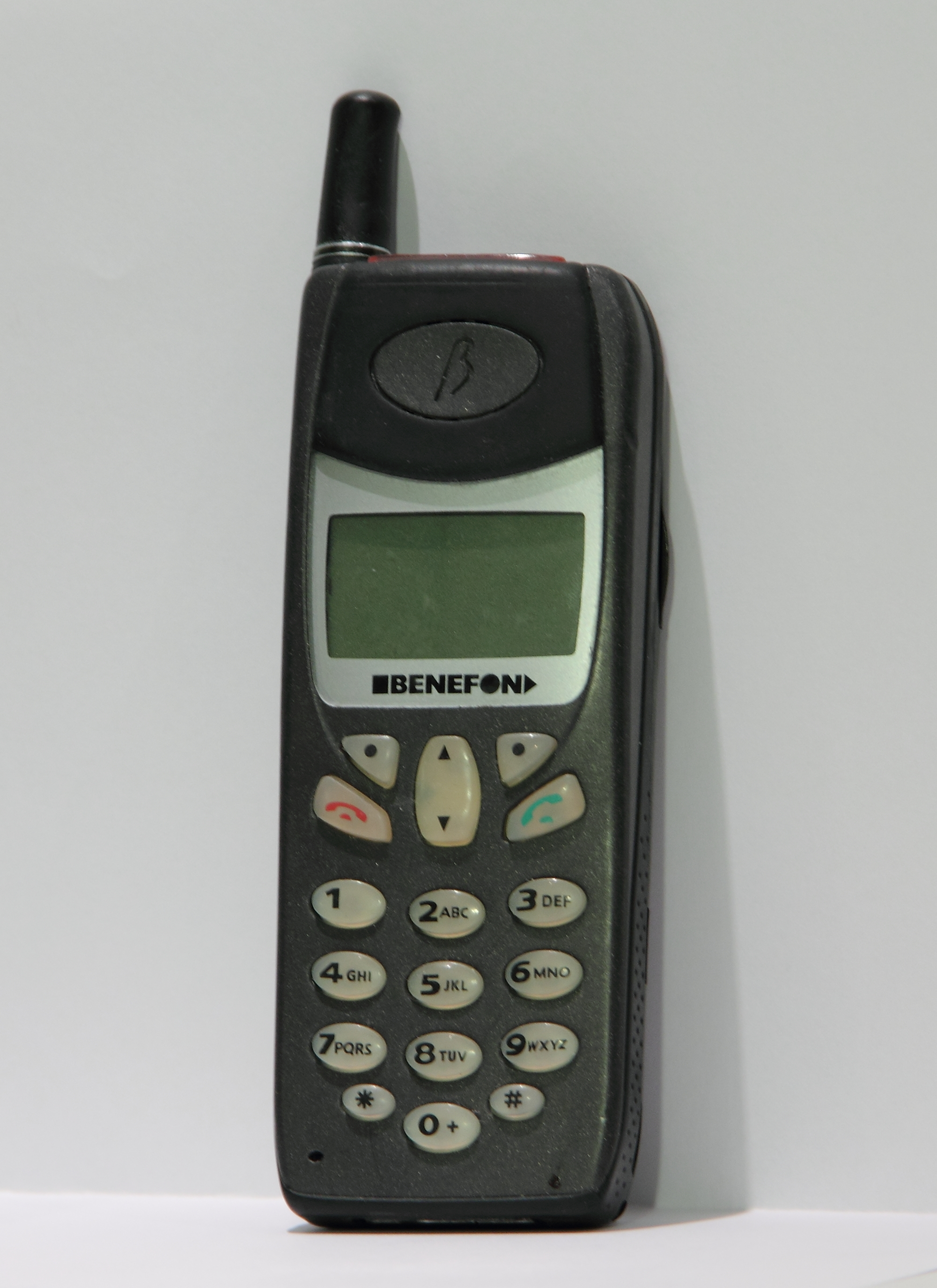 Benefon Track Pro mobile phone with GPS alarm